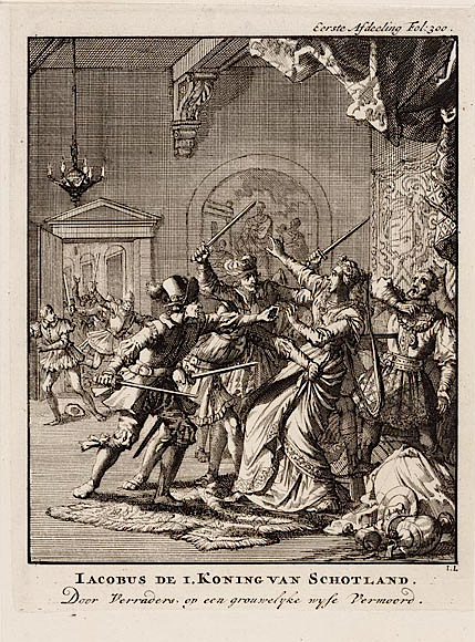 Iacobus de I. Koning van Schotland, etching by Jan Luyken.